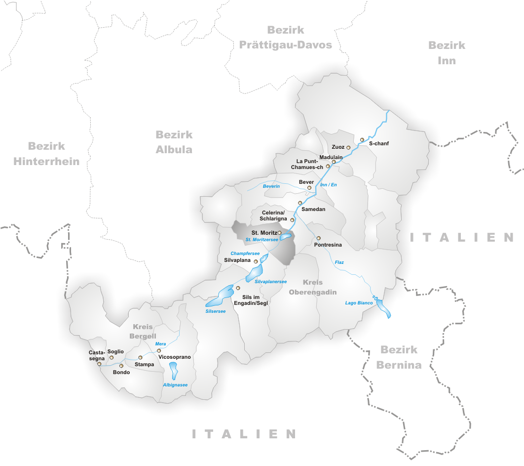 Municipality St. Moritz